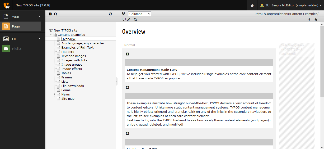 Screenshot of the TYPO3 CMS 7 Backend, seen as an editor on Firefox for Windows